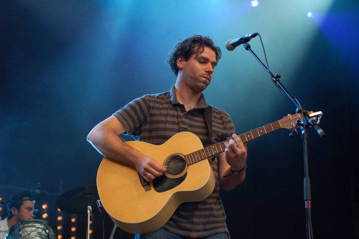 Singer/songwriter/musician Klaas Delrue from the Flemish band Yevgueni performs at the city music festival of "Maanrock" in Mechelen, Belgium.